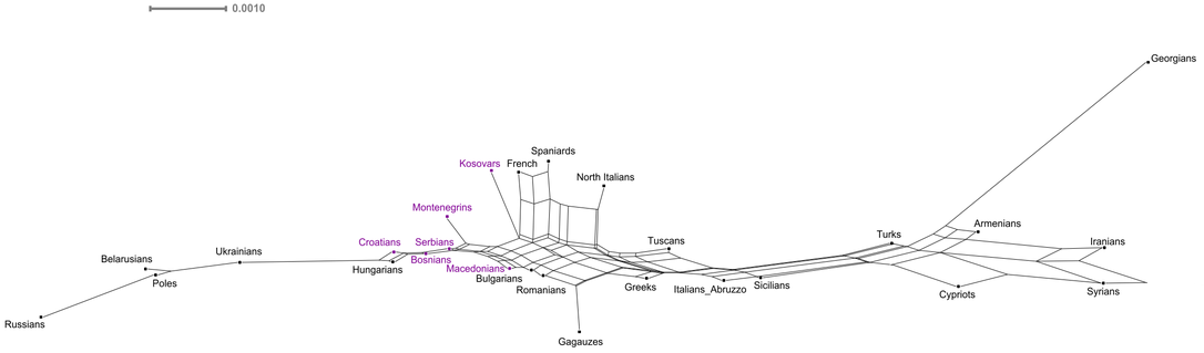 Network of 29 populations constructed with the Neighbor-net approach from FST distances based on the variation of autosomal SNPs. Western Balkan populations are indicated with violet color.